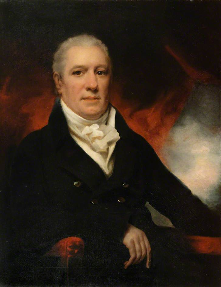 Painting of Sir William Fettes (1750–1836) by William Cuming.